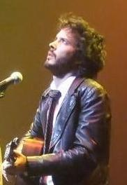 Bret McKenzie at Gramercy, 2007 Modified from File:Flight_of_the_Conchords_@_Gramercy,_2007.jpg, original photo taken by Gaelen Hadlett from Brooklyn, NY, USA on June 14, 2007 at 20:51, uploaded from Flickr by Boricuaeddie on 9 September 2007 at 20:27.